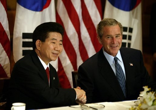 President George W. Bush and South Korean President Roh Moo-hyun meet for a working breakfast in Bangkok, Thailand, Oct. 20, 2003. (Press release)